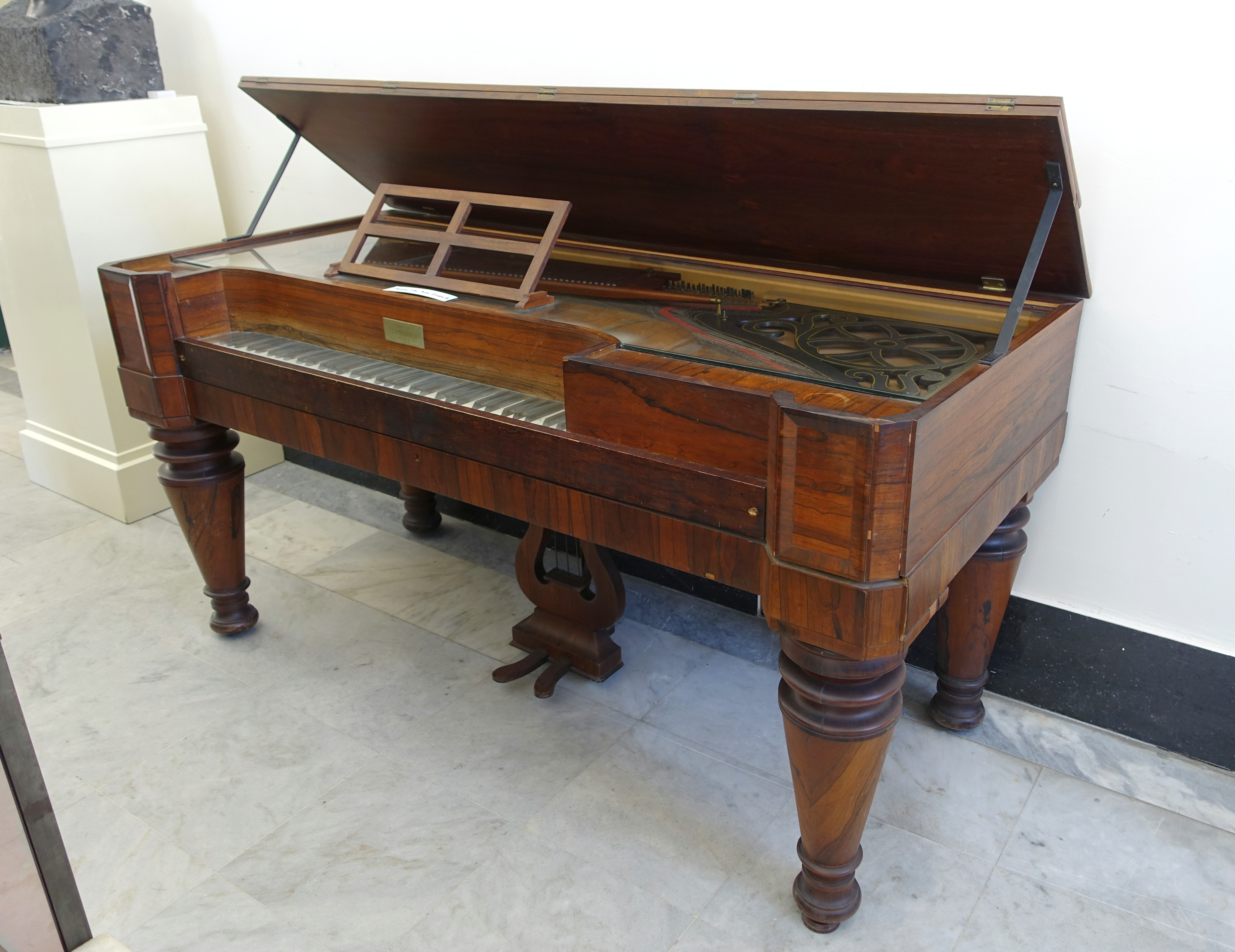 Piano in the Bennington Museum - Bennington, Vermont, USA. This work is in the public domain because the artist died more than 70 years ago.